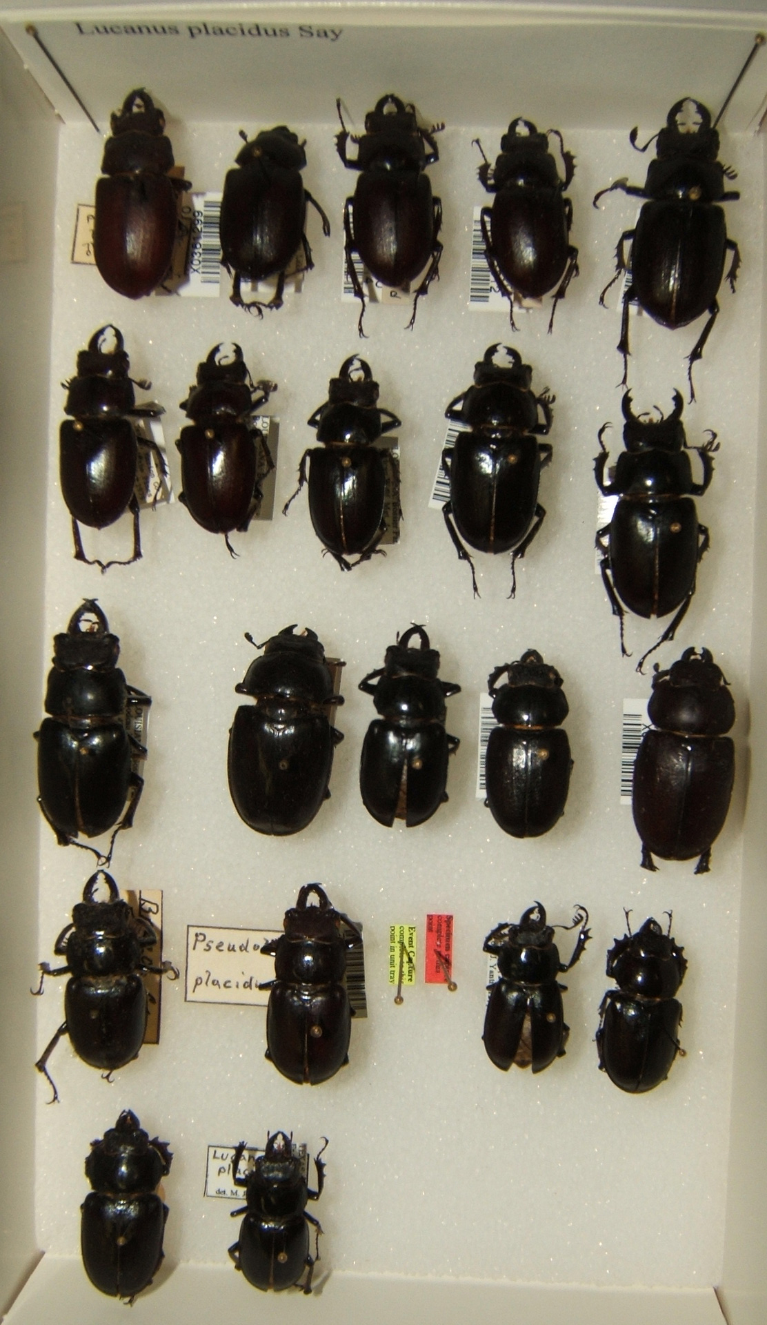 Lucanus placidus adult variation taken by Shawn Hanrahan at the Texas A&M University Insect Collection in College Station, Texas.